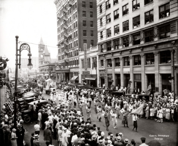 A view of a World War I homecoming parade, looking south on Main Street from Rusk Avenue. The parade is moving north on Main Street and is led by Red Cross representatives. Parked cars line the street as many unidentified people crowd the edge of the parade route.